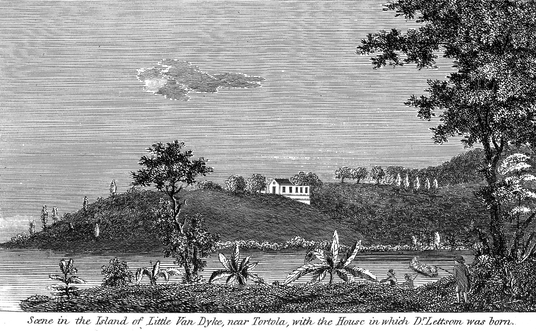 The house on the Island of Little Van Dyke, near Tortola, where J.C. Lettsom was born. Rare Books Keywords: Lettsom, John Coakely